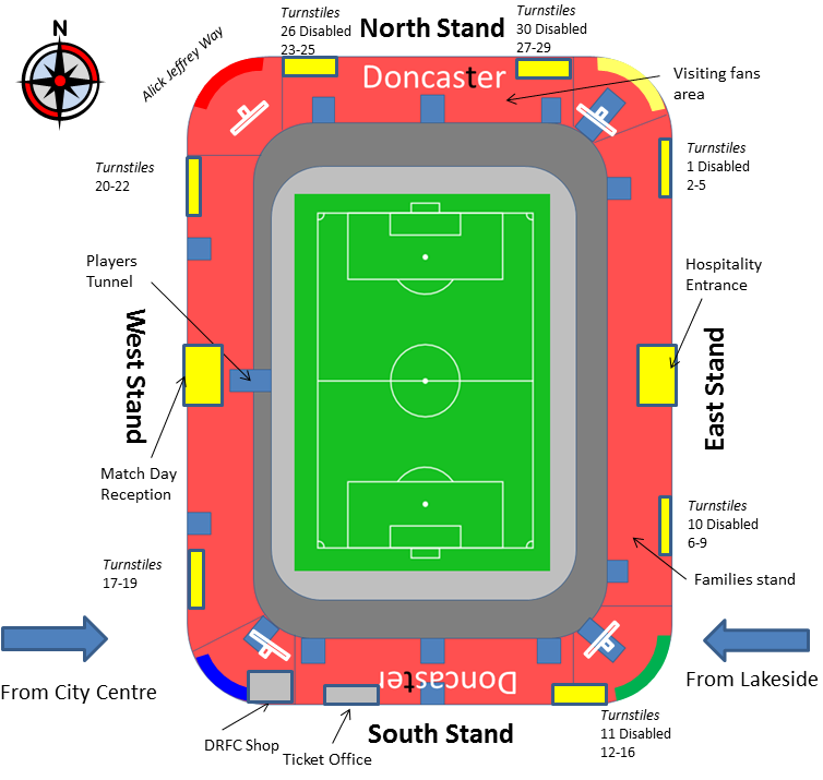 A diagram depicting the layout of the Keepmoat Stadium, Doncaster, DN4 5JW. The diagram shows the layout, stands and playing area. This was all my own work and is available to the Public Domain. The diagram was produced using Microsoft Powerpoint 2010 and exported to a .png format file. This is Version 4.0 of this file. Feel free to amend, enhance or update as necessary.